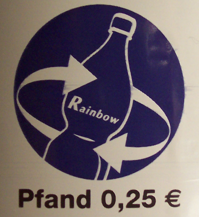 Logo für das Einwegpfand von Real Logo for the deposit of of bottles in the REAL-Market This logo was photographed by Bodenseemann